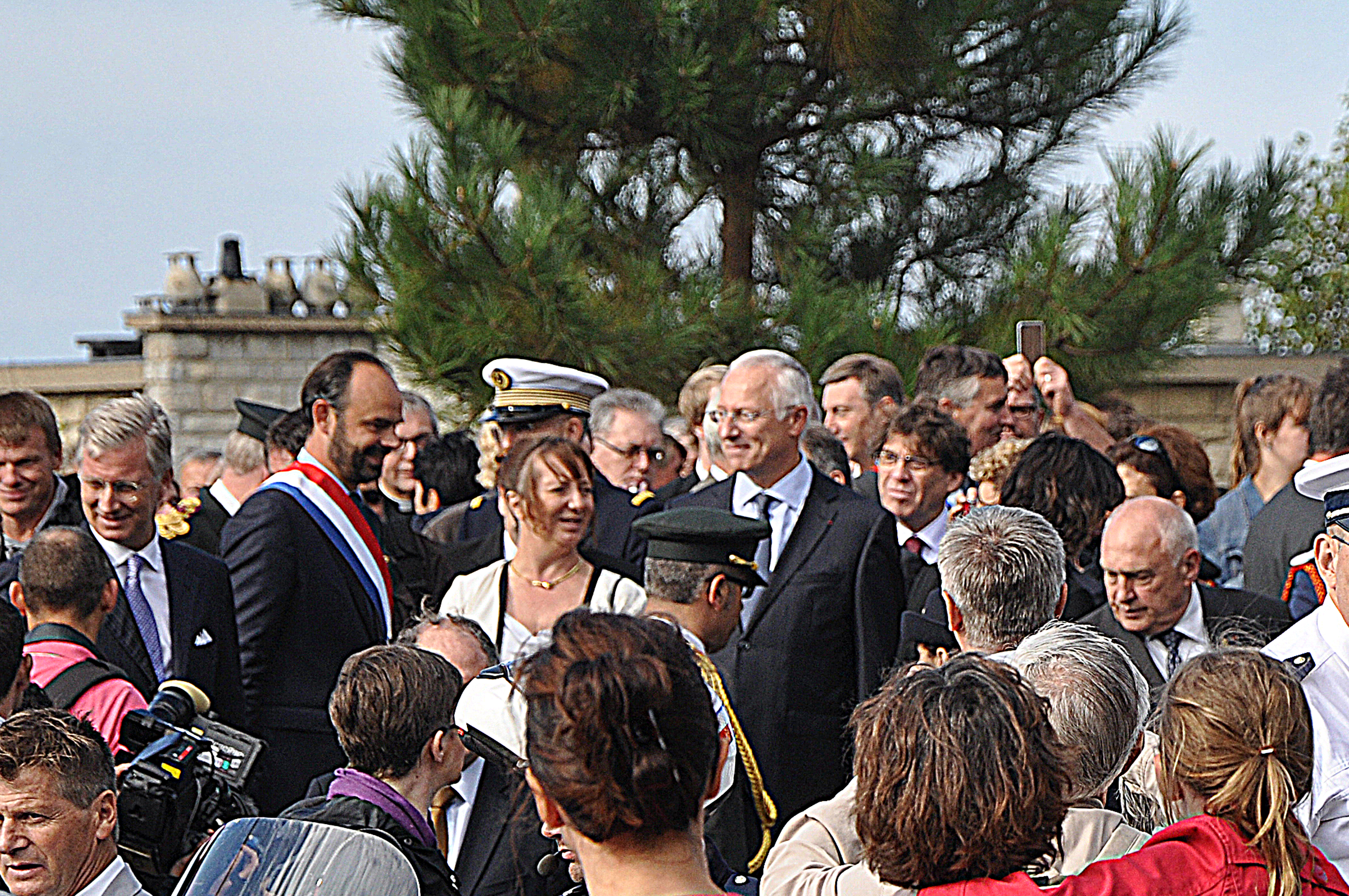 Major of Le Havre (France, Normandy), Édouard Philippe and king Philippe of Belgium, centenary of exile in Sainte-Adresse of belgium government (1914, 2014)